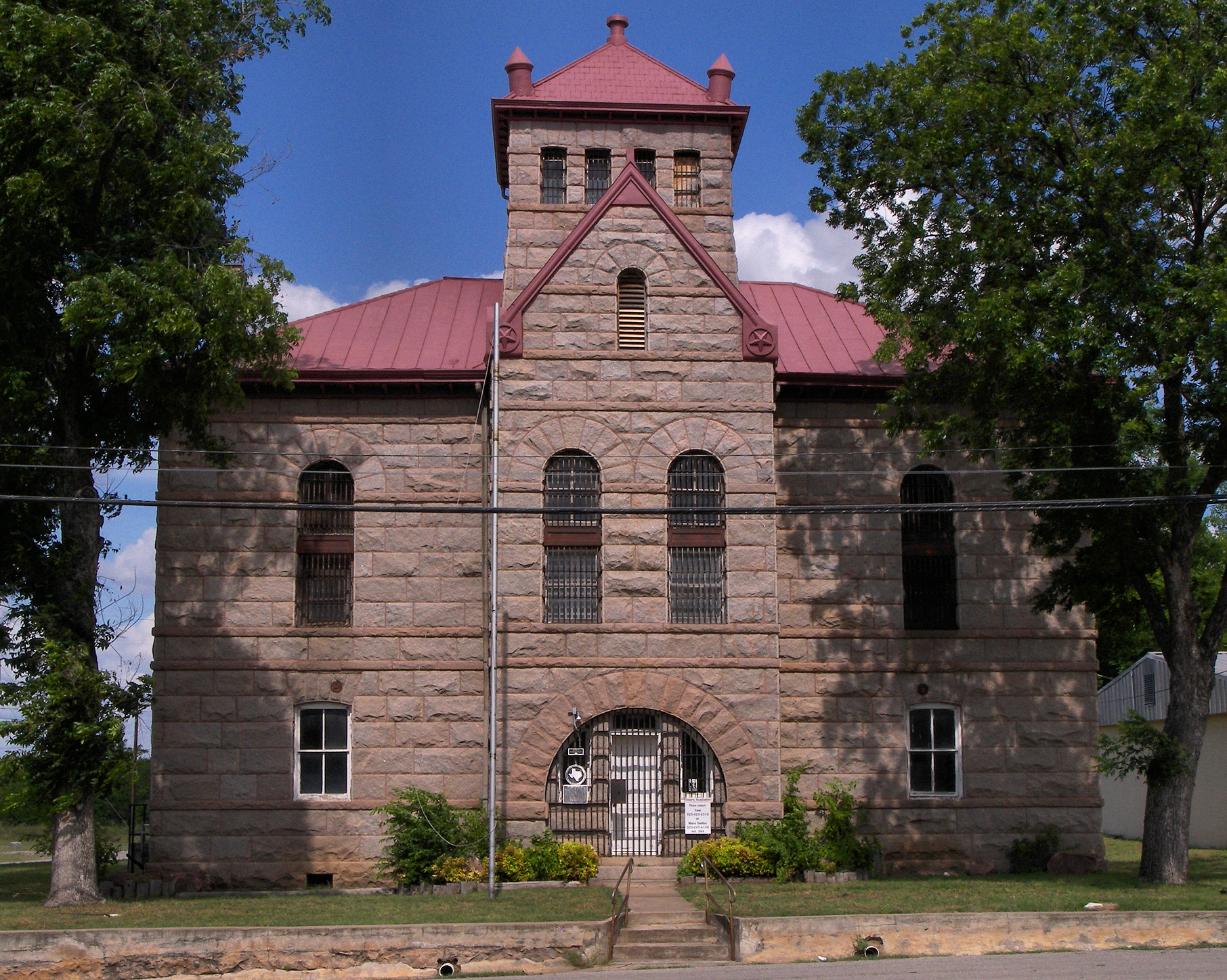 The former Llano County Jail in Llano, Texas, United States. The building was listed on the National Register of Historic Places on December 2, 1977 and designated a Recorded Texas Historic Landmark in 1979.